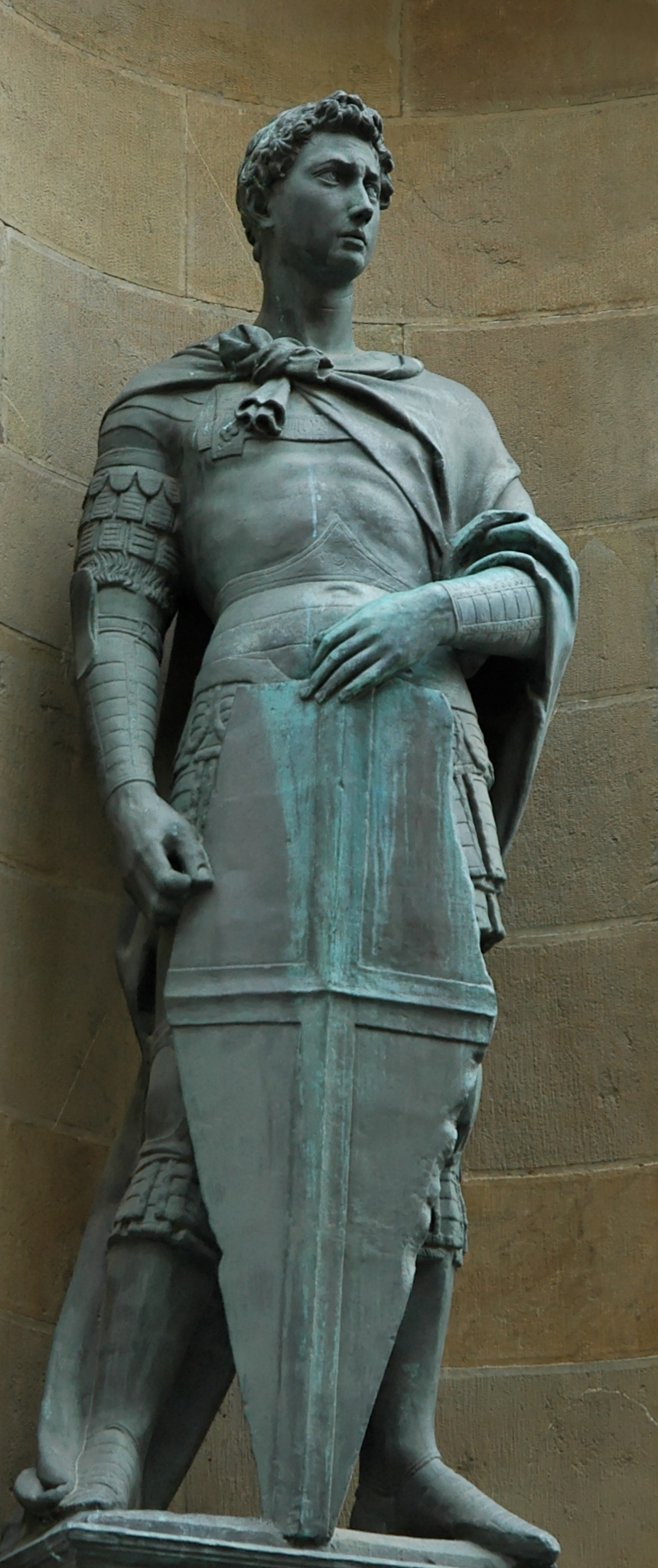 St George. Bronze copy of the statue, orginally in marble (original now in the Museo del Bargello), commissioned by the Arte dei Corazzai (guild of armorers). Orsanmichele, Florence.